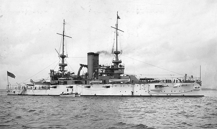 Removed caption read: Photo # NH 60633 USS Illinois in harbor, circa 1901-1908